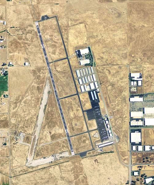 USGS digital orthophoto of Lincoln Regional Airport in California